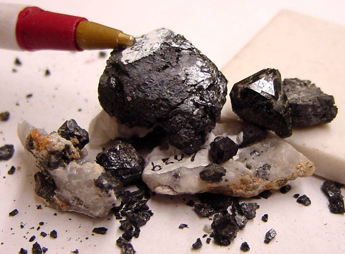 Hercynite (spinel group). Pen for scale. Mineral collection of Bringham Young University Department of Geology, Provo, Utah. Photograph by Andrew Silver. BYU index 6001, FeAl_2O_4.